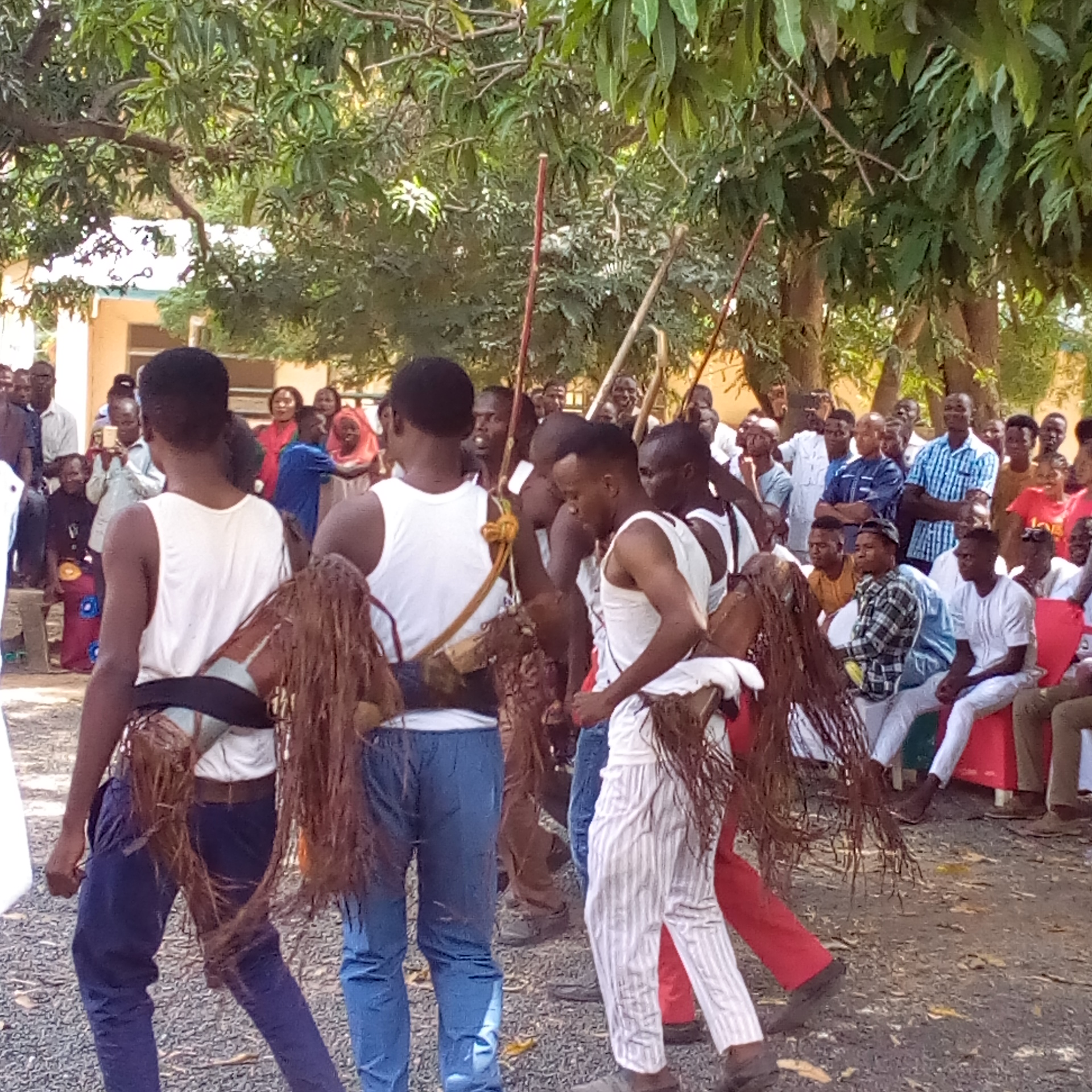 A group of students Dancing the kamwe cultural dance at Adamawa state university, Mubi, This is an image with the theme "Play" from: Nigeria